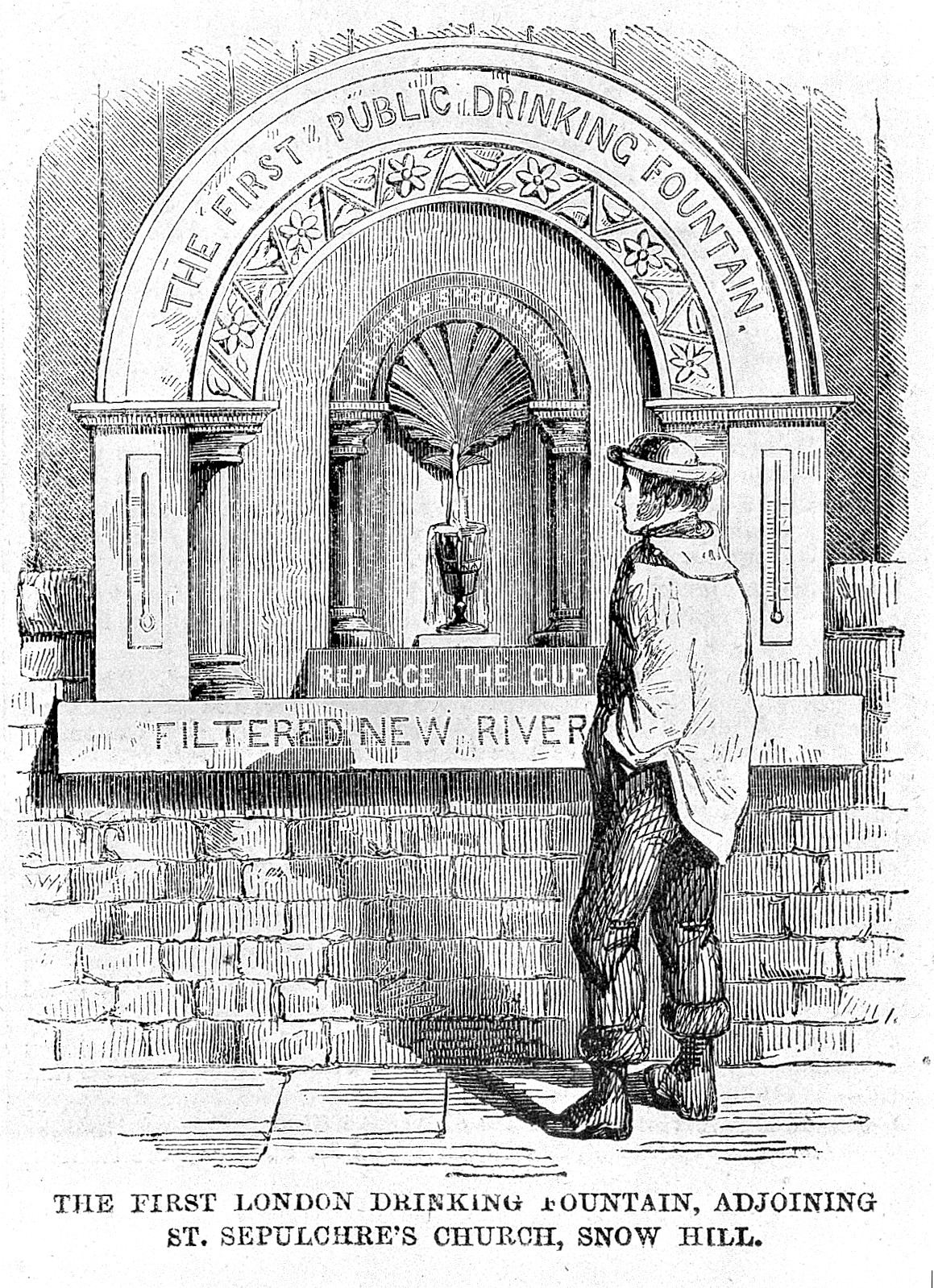 First London Drinking fountain, adjoining St. Sepulchre's Church, Snow Hill. Wellcome Images Keywords: Public Health